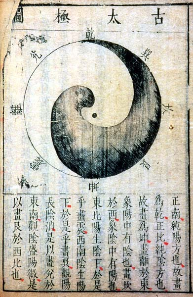 A Chinese page labelled "The Old Taijitu" and including an early rendering of the Taijitu ("Yin-Yang" or "Yinyang"). The text describes how the Taijitu functions as a map, with south (at the top of the diagram) representing pure yang, north (at the bottom) representing pure yin, and points around them representing the flow from one to the other. Compare Lai Zhide's diagram and the Unicode Yinyang. Red dots have been added to separate sentences in the running text.